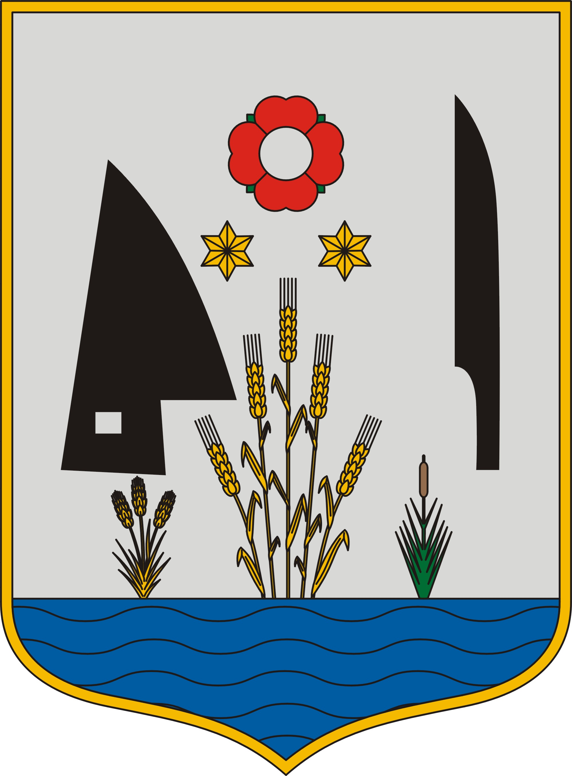 Coat of arms of Csikvánd, Hungary